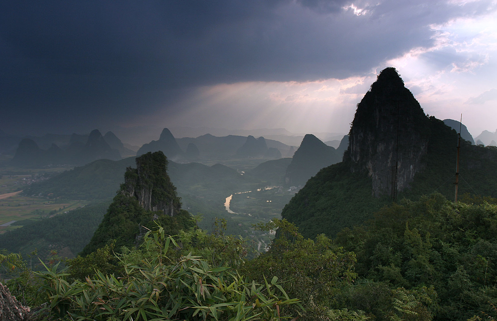 View from the Moon Hill outside Yangshuo, Guanxi province, China. Equipment: Canon EOS 20D, 17-40L 4.0 @ 17 mm